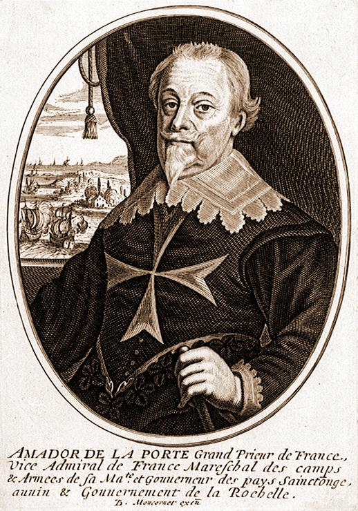 Amodor de la Porte Grand Prieur de la Porte from 1638 to 1645.